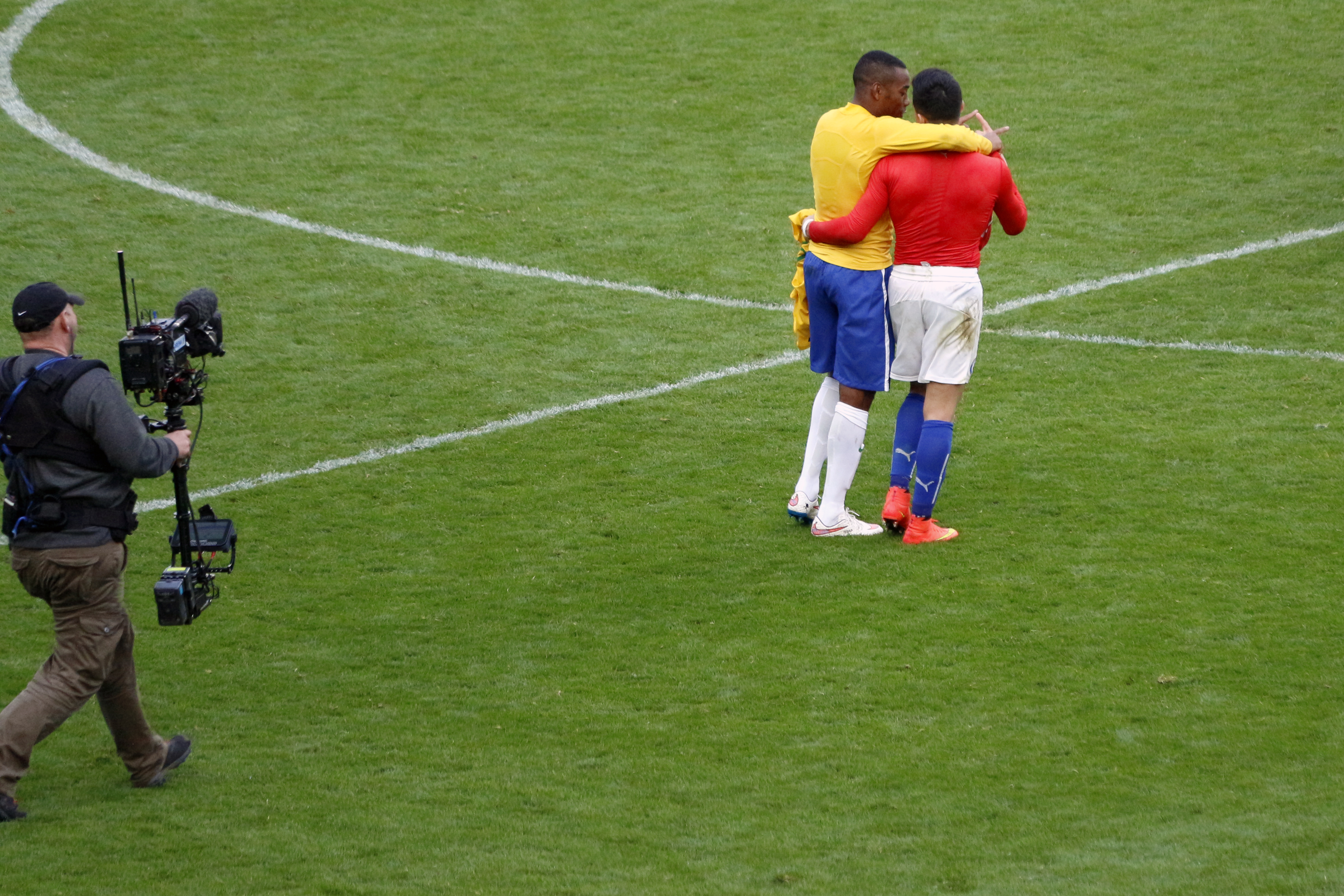 Robinho Alexis Sánchez Brazil vs Chile, International Friendly, 29th March, 2015, Emirates Stadium, London